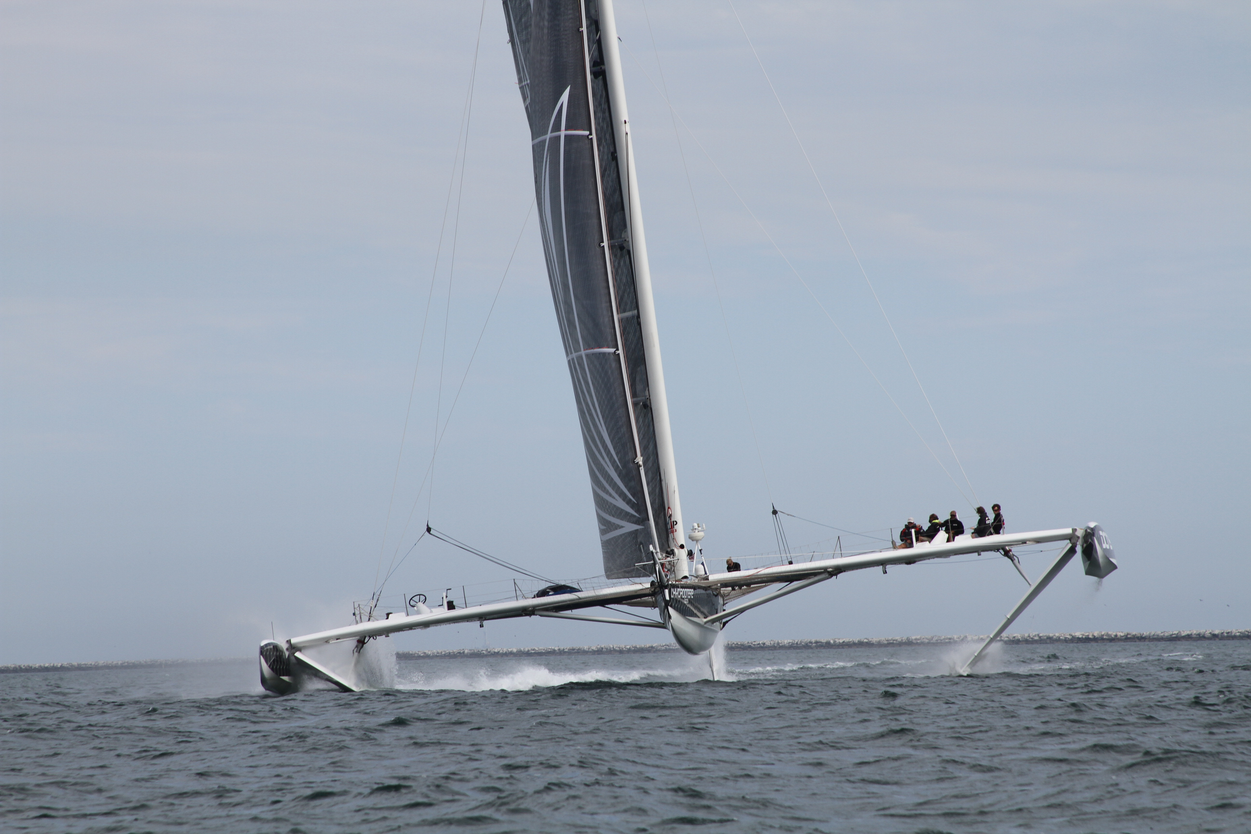 l'Hydroptère, the flying trimaran of Alain Thébault during a training session in Long Beach (Californie) in August 2012.